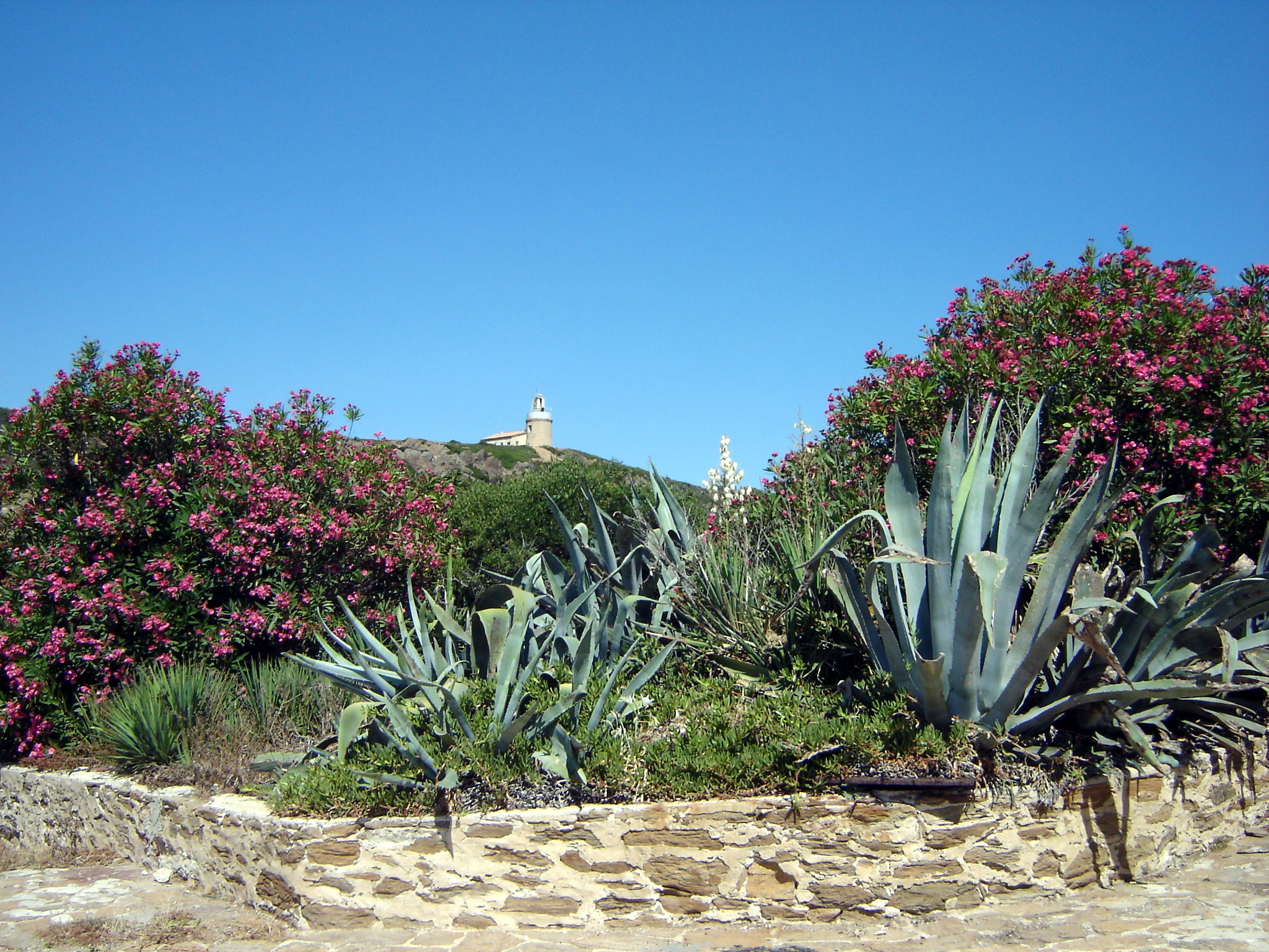 Semaphore of Titan seen from the southeast.